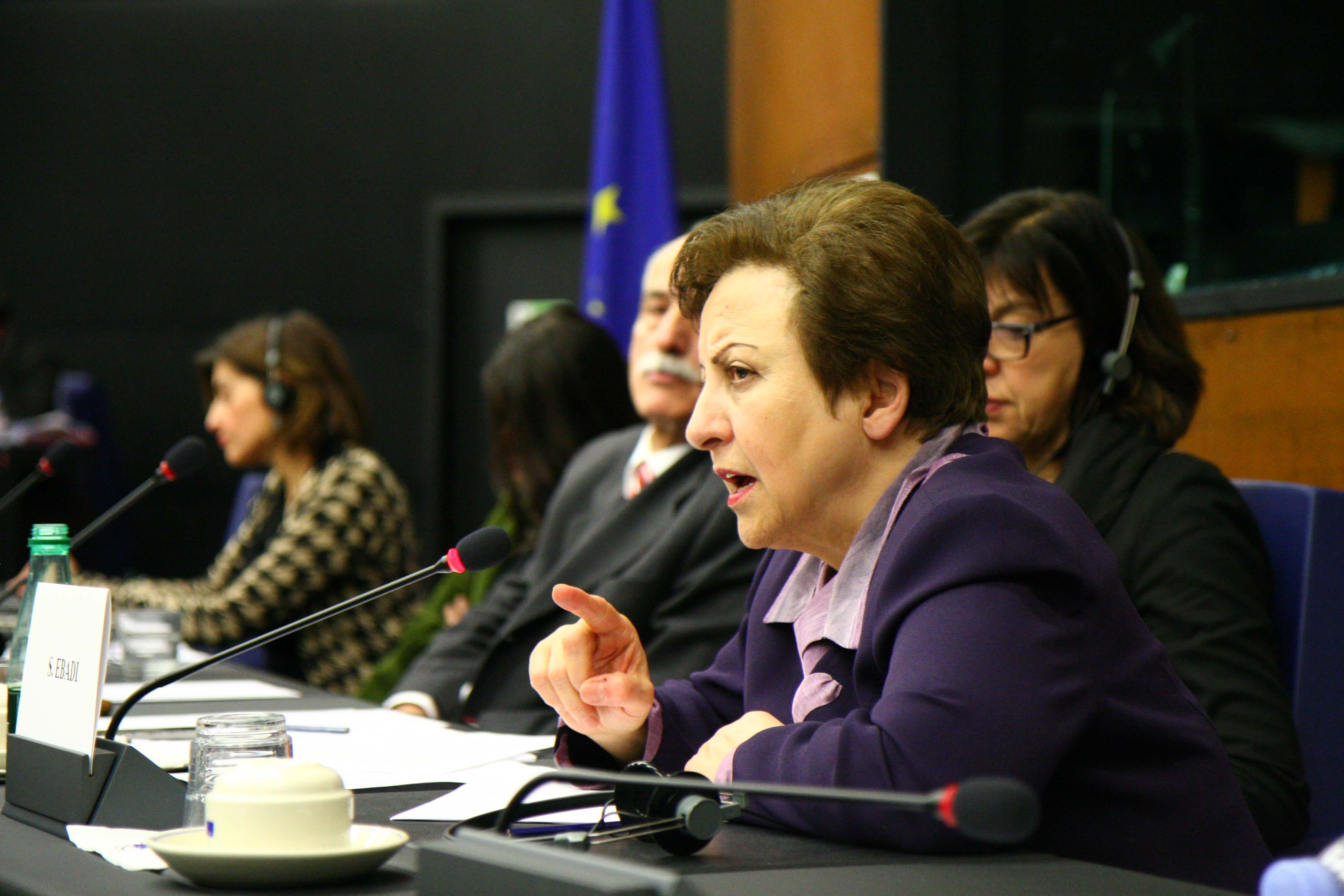 Representataives of Nasrin Sotoudeh and Jafar Panahi met with the Greens/EFA group Tuesday before receiving the "Sakharov Prize for Freedom of Thought" شيرين عبادي تمثّل المحامية الإيرانية المعتقلة نسرين ستوده في حفل حصولها على جائزة سخاروف لحرية الفكر عام 2012 Find out more about Iranian lawyer and human rights advocate Nasrin Sotoudeh and Iranian film director, screenwriter and film editor Jafar Panahi here The prize winners were represented by Iranian Human Rights activists Ms Shirin Ebadi and Mr Karim Lahidji, and daughter of Jafar Panahi , Ms Solmaz Panahi.